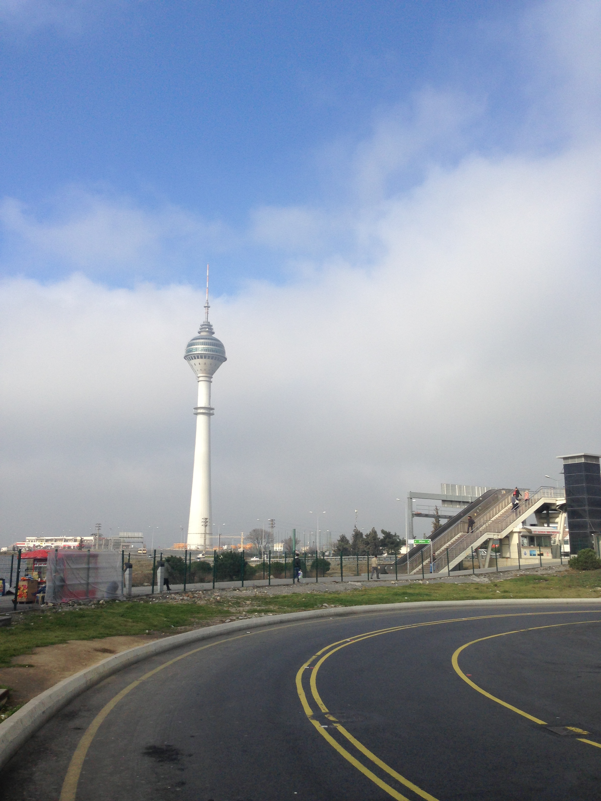 The Endem TV Tower as seen from the Beylikdüzü-Sondurak metrobus station.